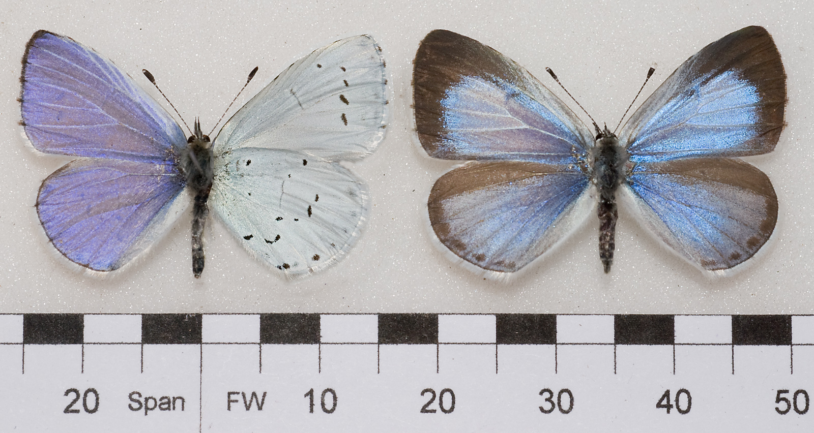 Celastrina argiolus argiolus, male, female, set specimens, England, Alan Cassidy photo